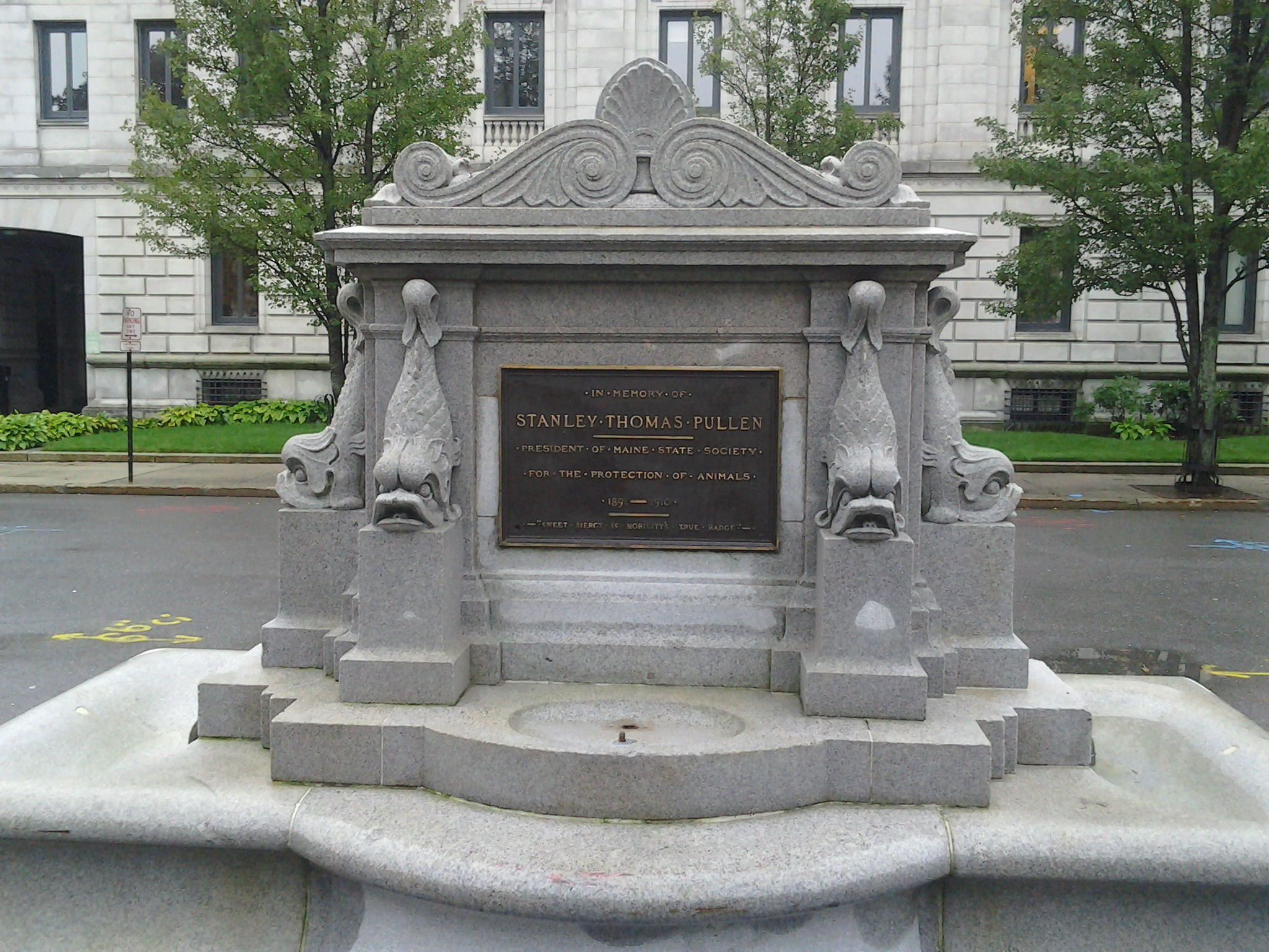 The Pullen Fountain in downtown Portland, Maine